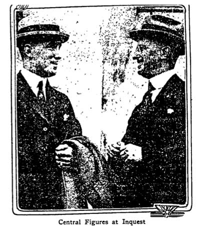 Los Angeles Times photo printed in the newspaper on April 26, 1922, with this caption: "The two men below are King Kleagle G.W. Price, at left, and Grand Goblin William S. Coburn of the Ku Klux Klan, who were rigorously questioned by Chief Dep. Dist.-Atty. Doran . . . as to how they knew a raid was being conducted in Inglewood and how they happened to be there so soon afterward."